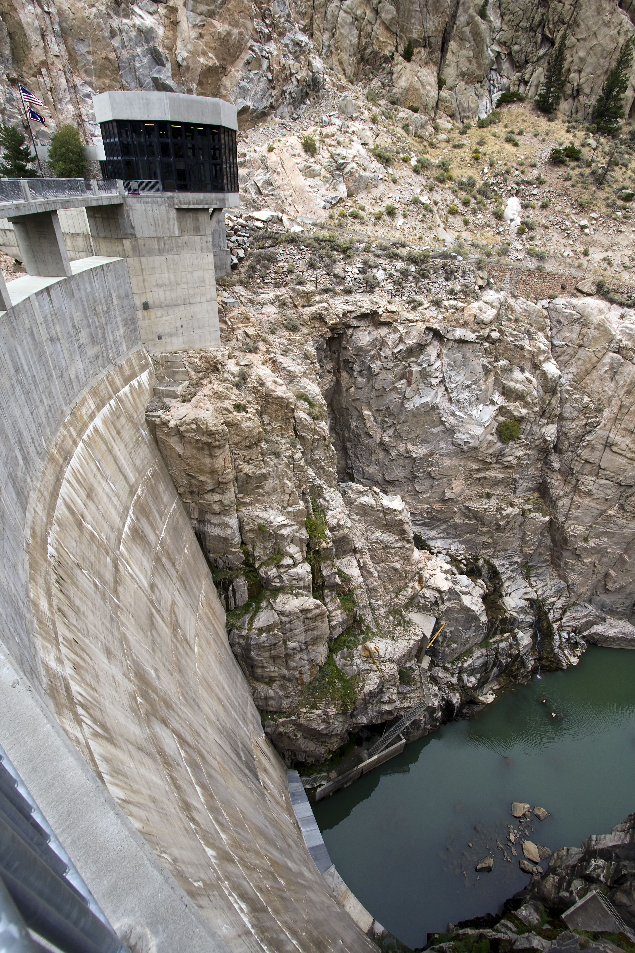 Buffalo Bill Dam near Cody, Wyoming, USA, looking north toward the visitor center